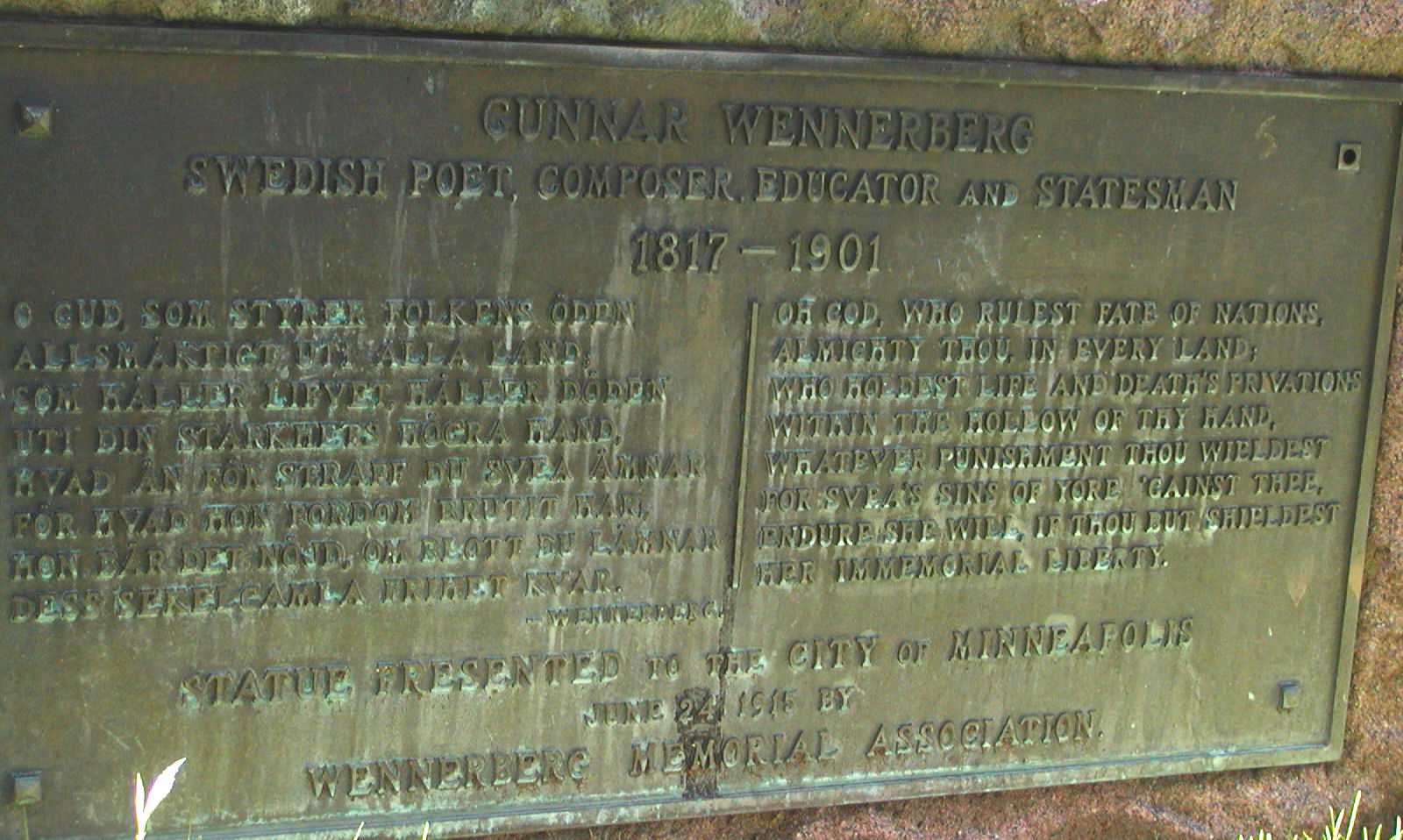 Plaque in Minneapolis, Minnesota